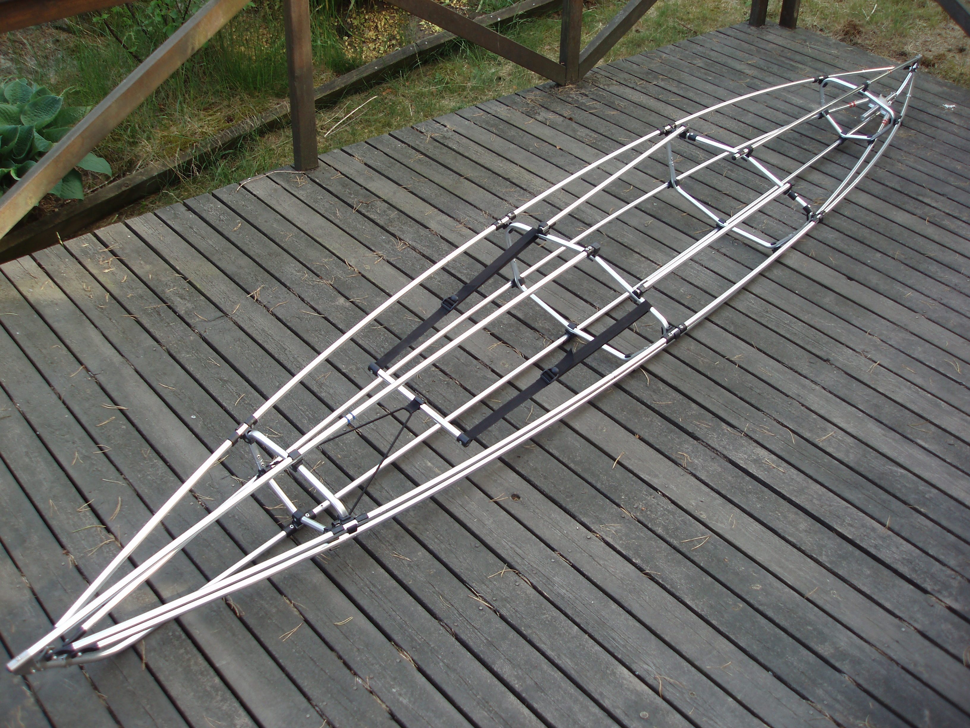 Folding kayak, skeleton